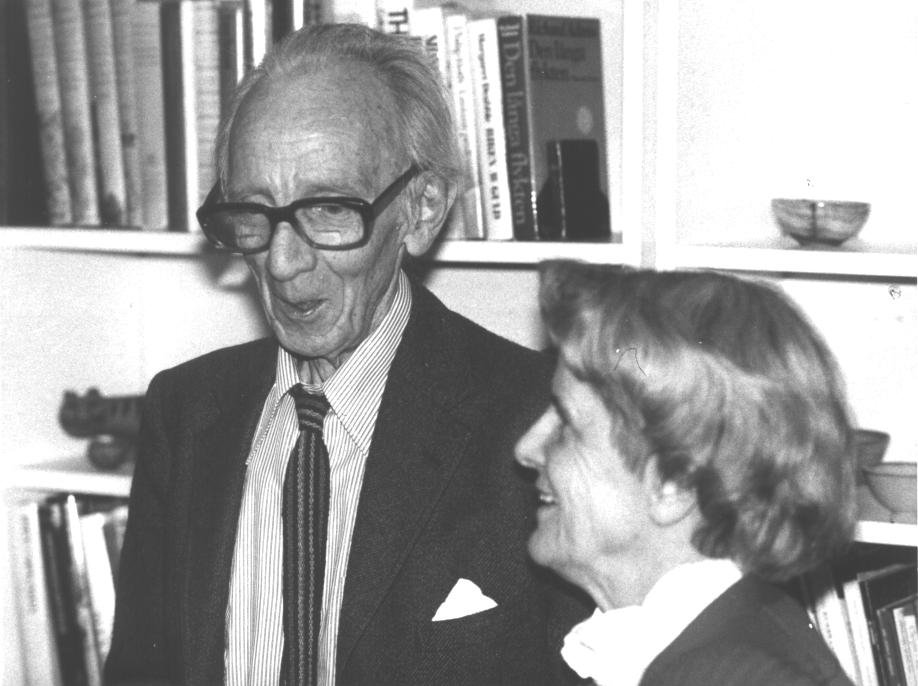 Tore and Britt Virke